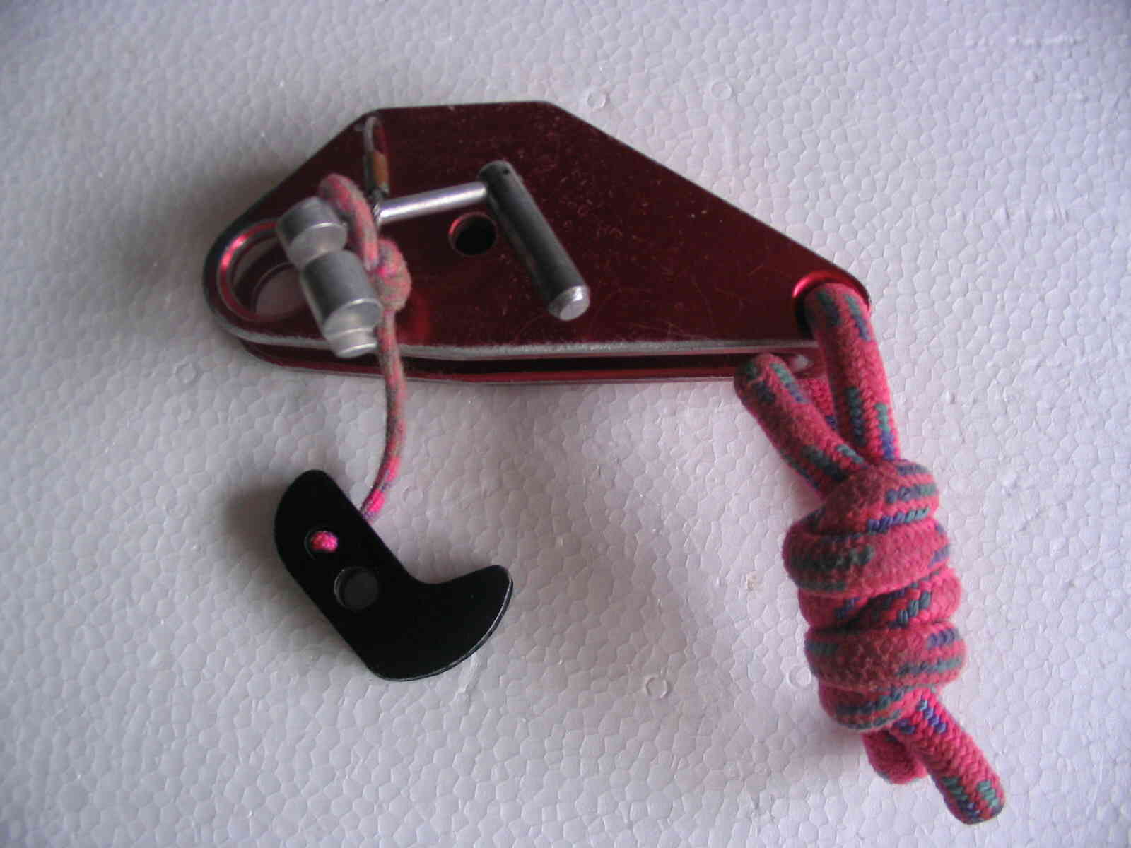 Alan Silva Collection 2004, Wren Industries 1995 Soloist